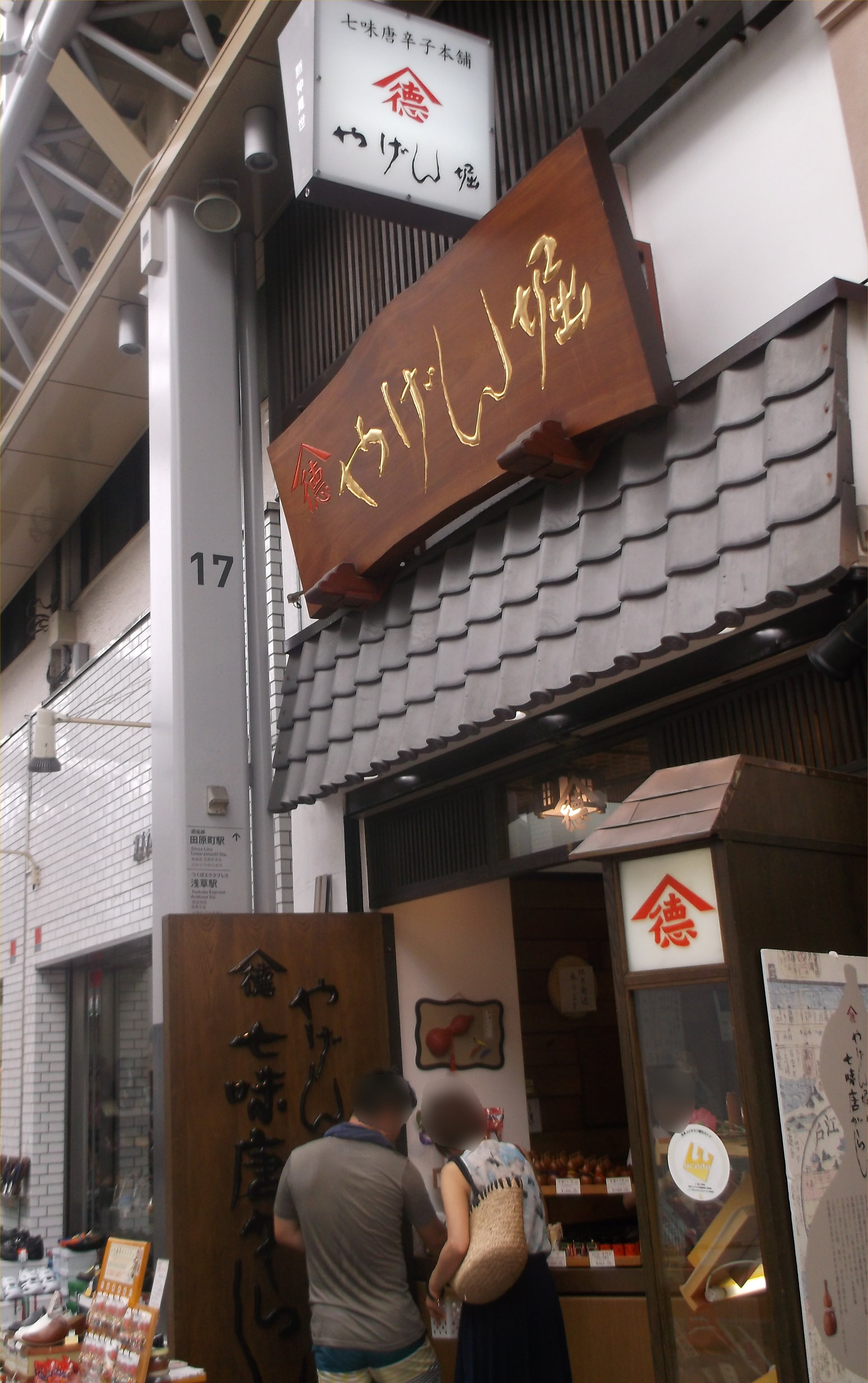 A photo of Yagenbori Shichimi Togarashi Shin-nakamise head store.Asakusa,Taito-ku,Tokyo,Japan.